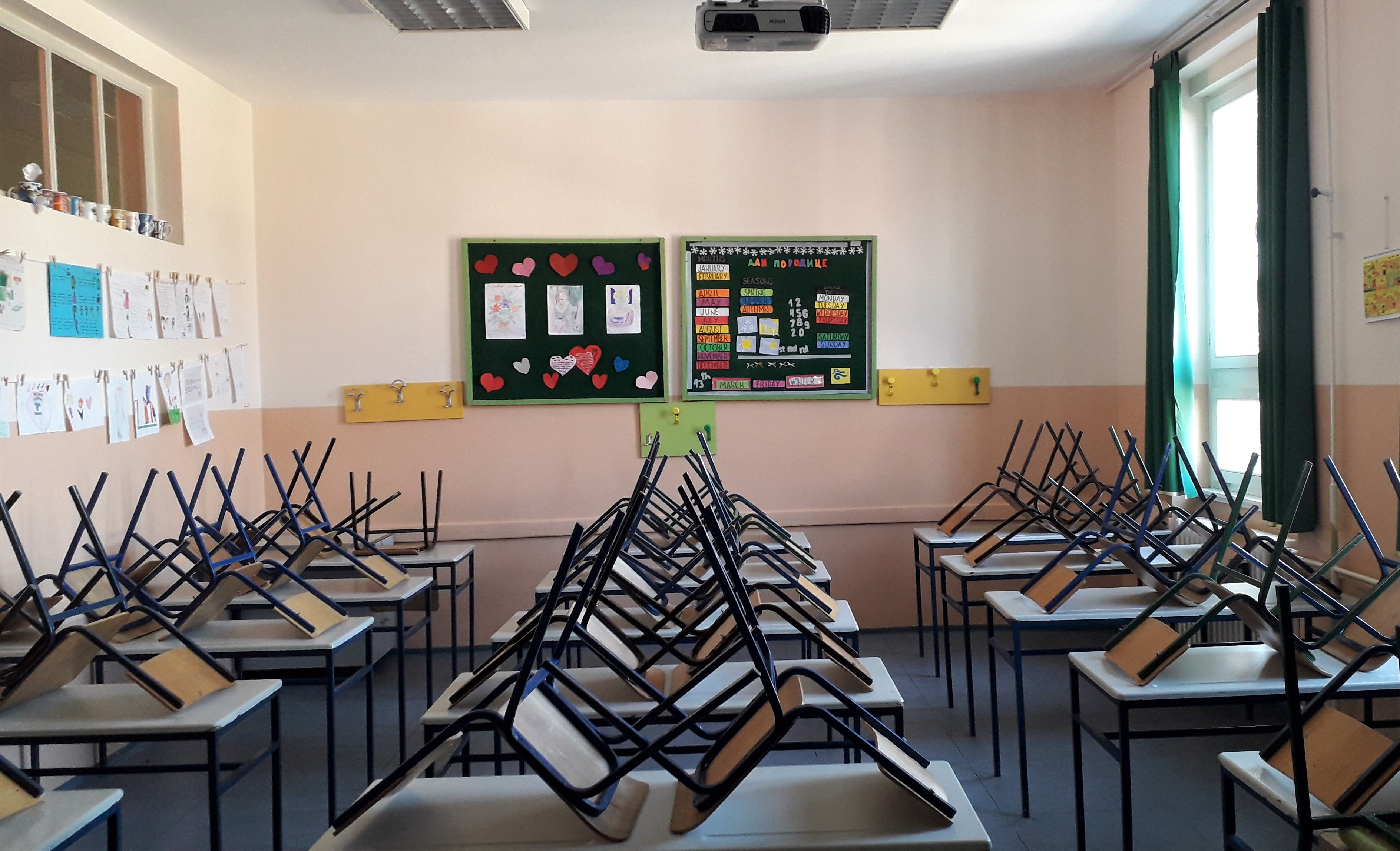 Primary school Djura Jaksic in Kikinda, empty classroom in 2020